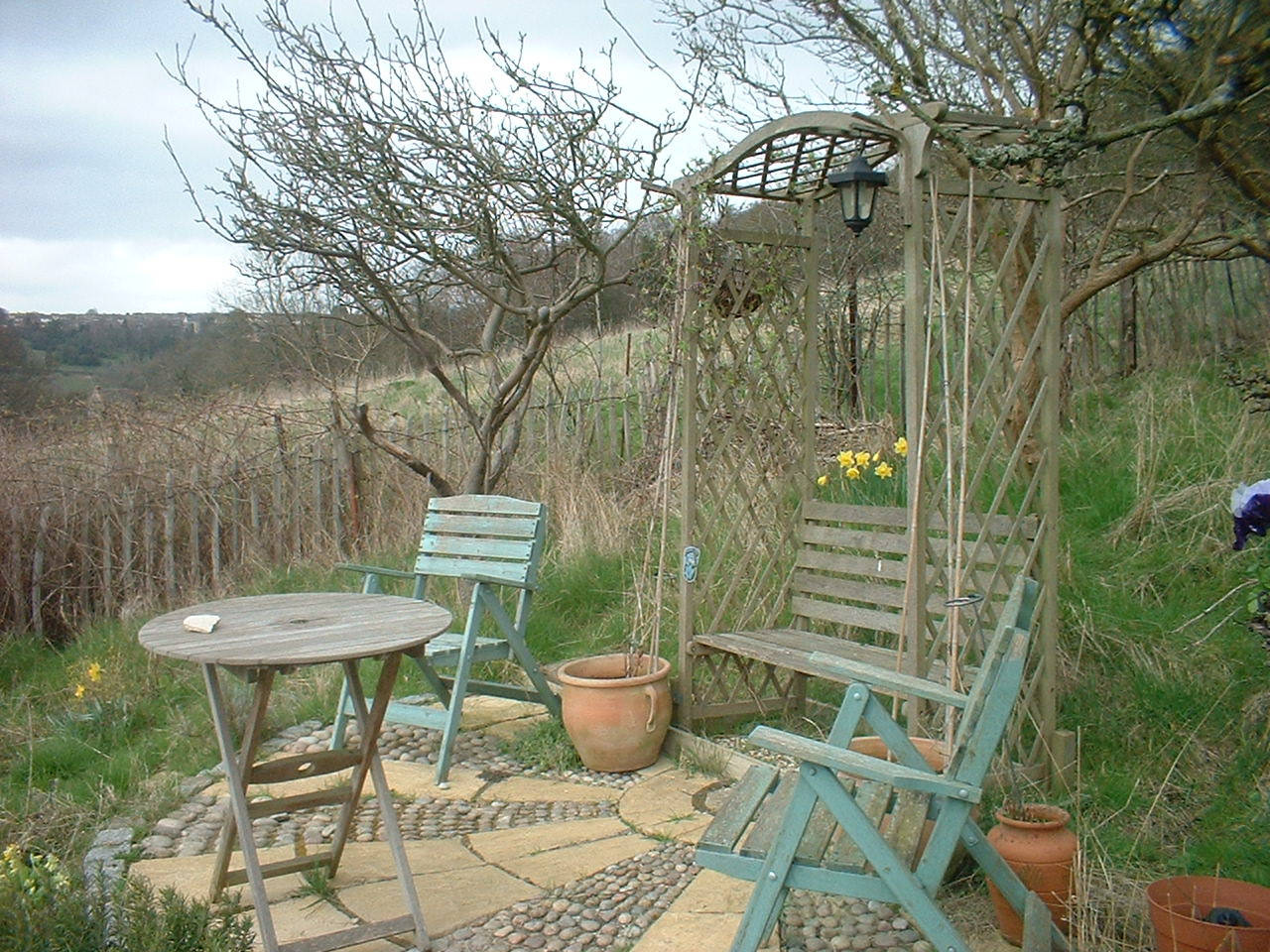 Photo of the pergola in my back garden ;)